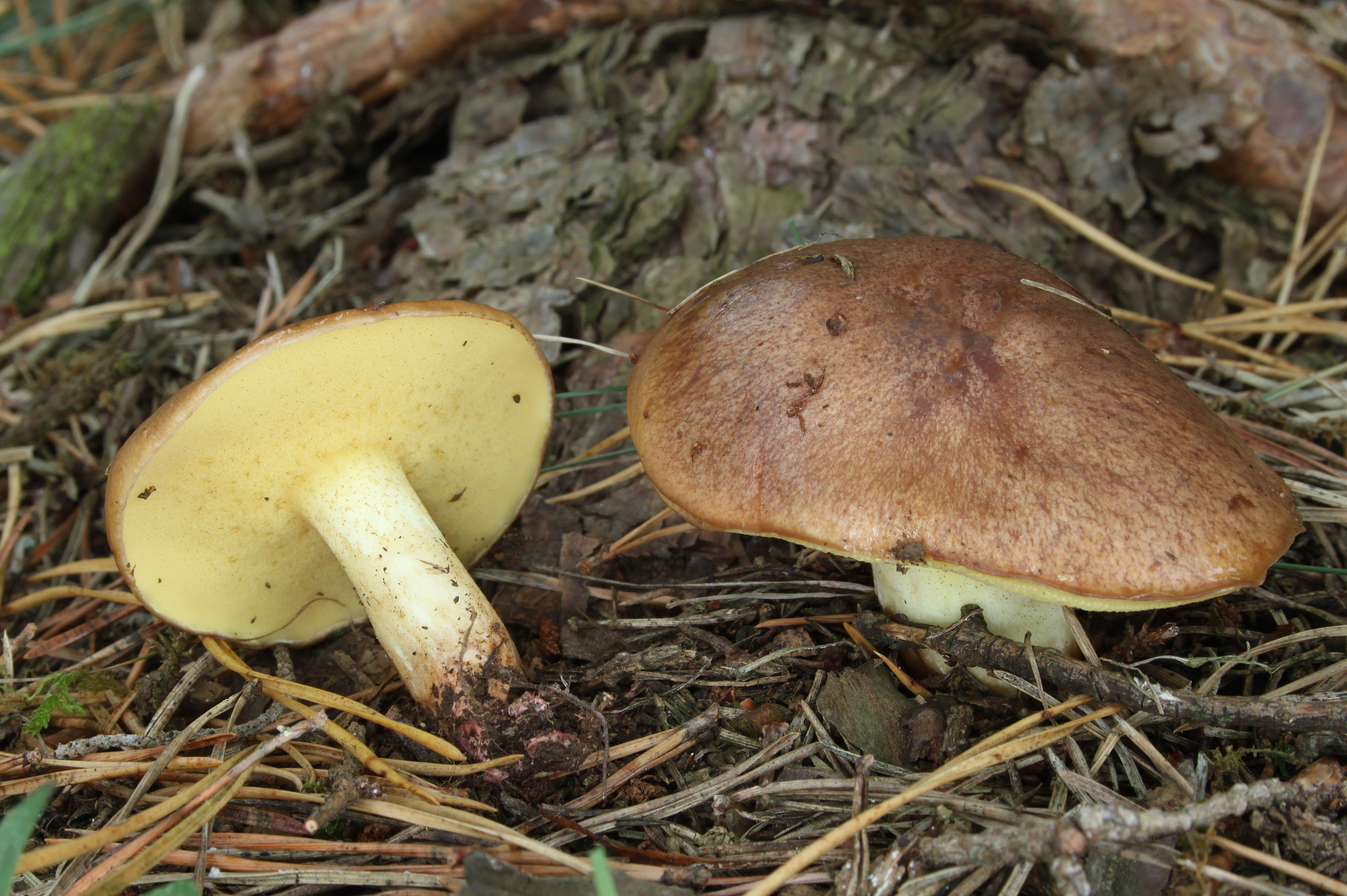 Weeping Bolete or Granulated Bolete, Suillus granulatus, Family: Suillaceae, Location: Germany, Ehingen